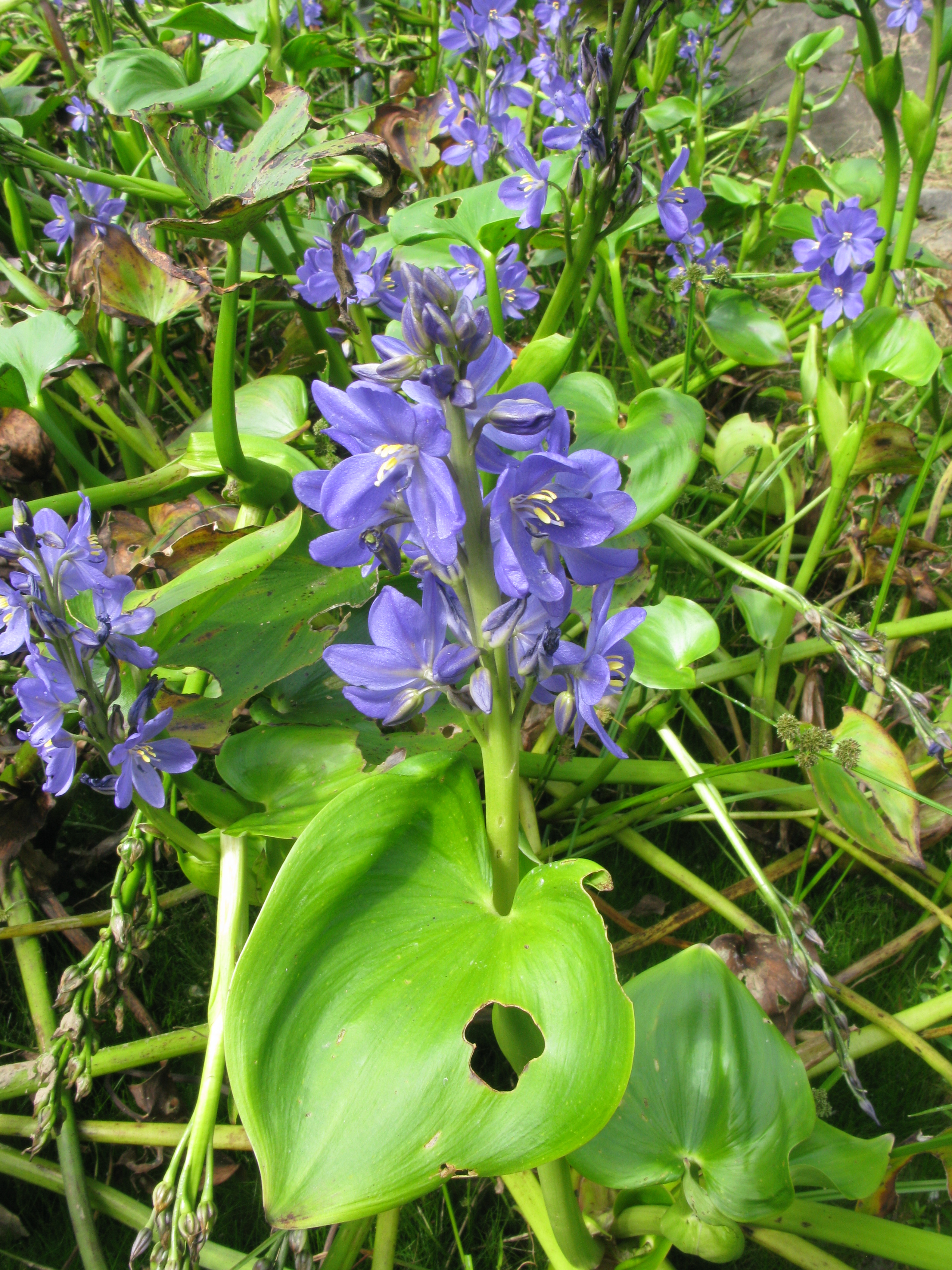 Monochoria korsakowii, Tsukuba Botanical Garden, Ibaraki pref., Japan